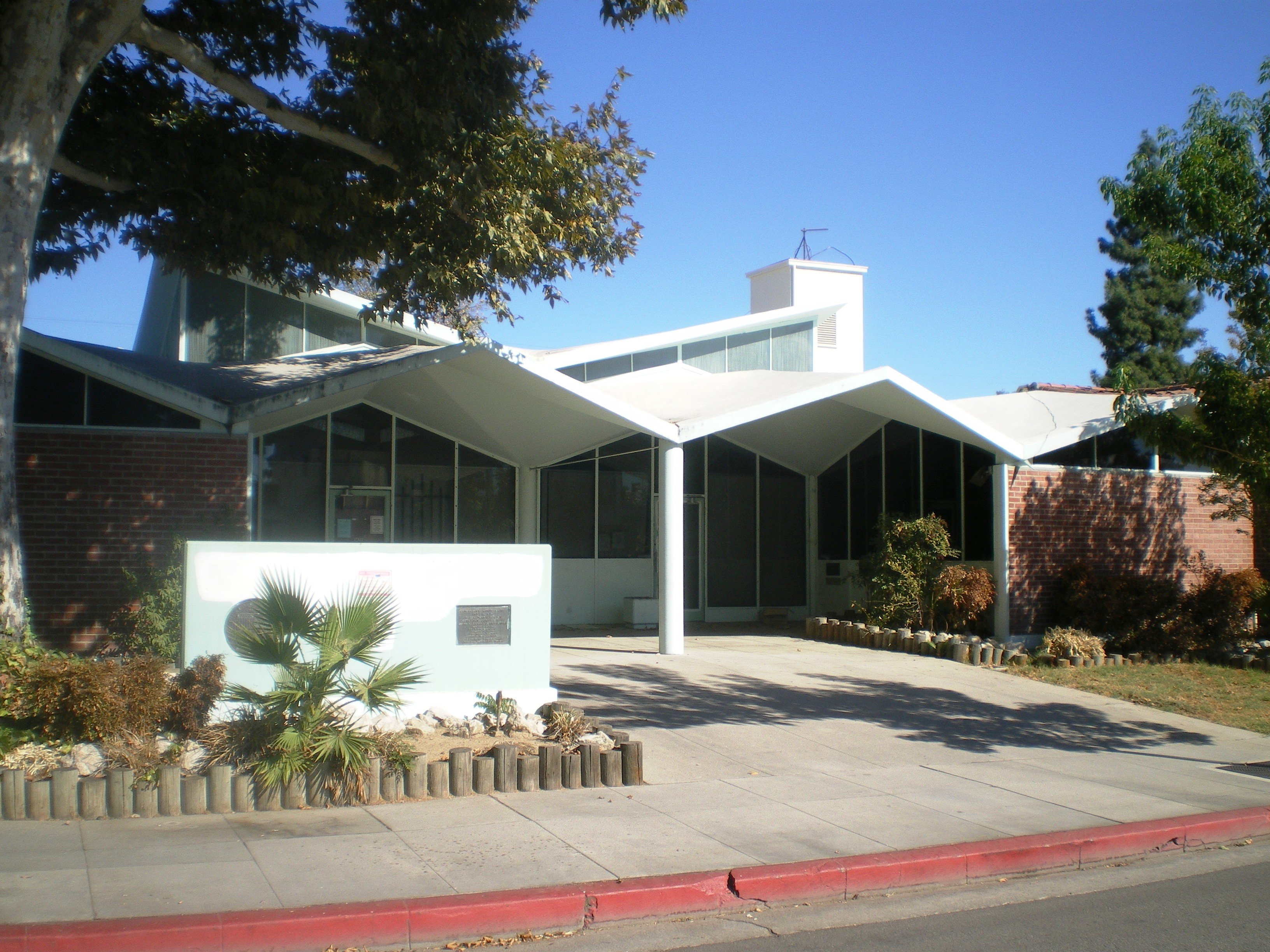 Canoga Park Branch Library — a Mid-century modern style building in Canoga Park, in the western San Fernando Valley. • The building is located at 7260 North Owensmouth Avenue in downtown Canoga Park, Los Angeles, California. • The library was designed by the architectural firm of Bowerman & Hobson, built in 1959, and is a Los Angeles Historic-Cultural Monument. • This building now houses a school. The new Canoga Park Branch Library is to the east, on Sherman Way near DeSoto.